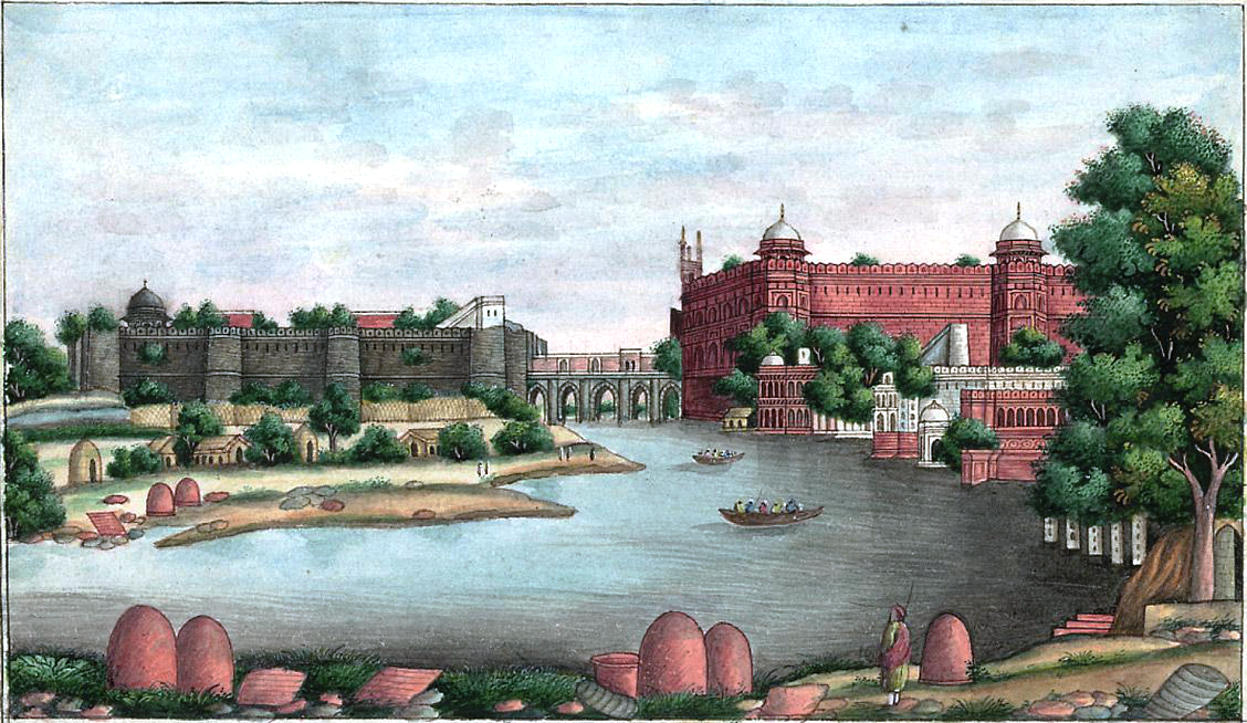 View of the Delhi palace from Metcalfe House. Inscribed below: naqsha-i tripoliya va salimgarh va qil‘a-i shahjahanabad. Mazhar ‘Ali Khan. The word tripoliya seems to refer to the bridge connecting the two forts, although it has more than three openings. The view is probably taken from the Agency's building at Ludlow Castle. This file has been provided by the British Library from its digital collections. This tag does not indicate the copyright status of the attached work. A normal copyright tag is still required. See Commons:Licensing.